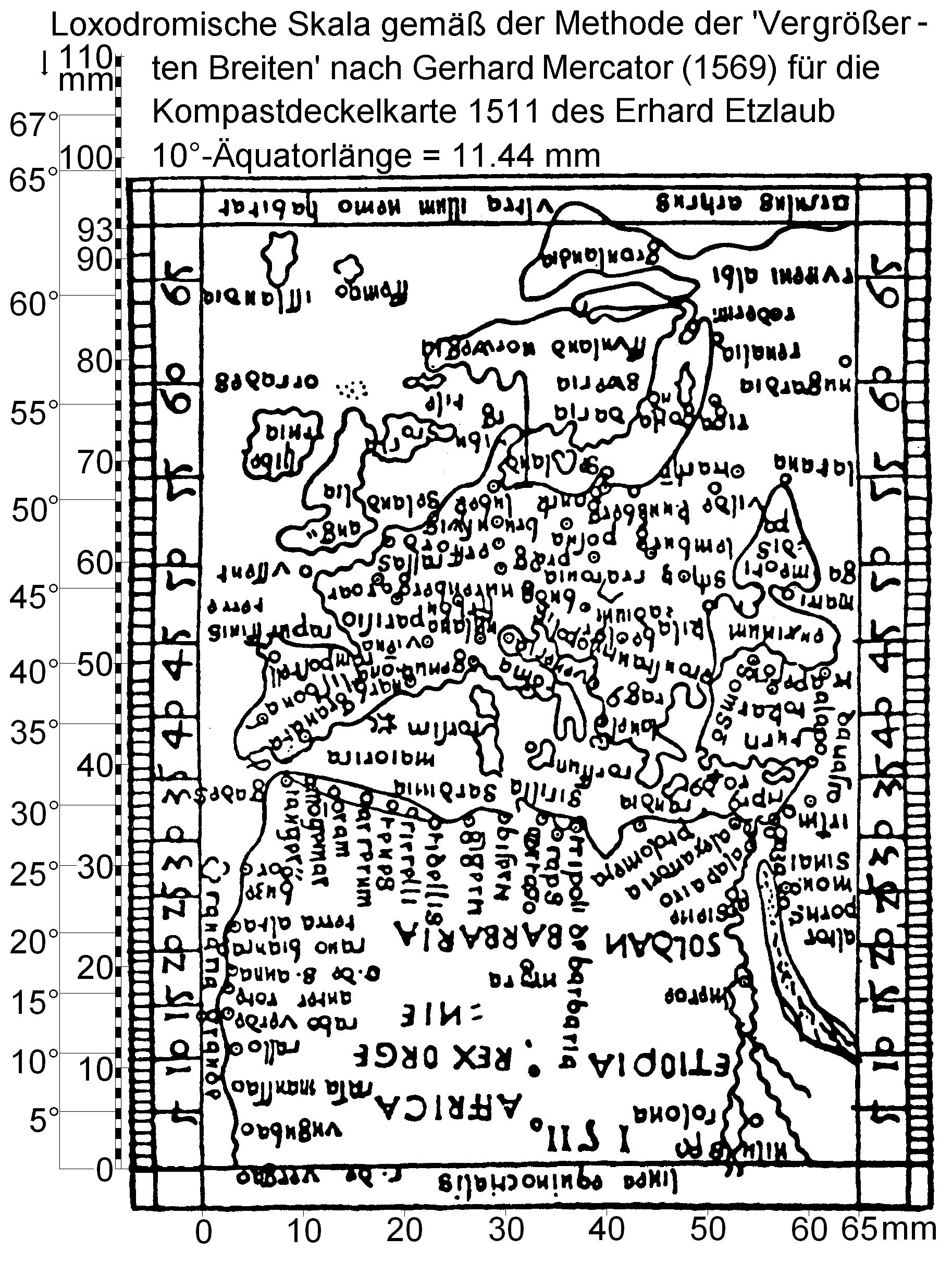 Miniature map from outside of hinged lid of Etzlaub's 1511 sundial. Size is 93x65 mm, orientation is "South-up", no longitudes are given. Latitudes printed in grey numbers (see right margin) were calculated by Krücken (2004, see "Source") for a Mercator projection of same area and prove that Etzlaub's approach was completely different. These maps were designed to adjust sundials (called "Kompast" [sic!] in late medieval German) for user's latitude. Instructions were given by Etzlaub in Codex ad Compastum Norembergensem which was kept by Staatsbibliothek, Munich, Germany, but seems lost. Height: 93 mm (3.66 in); Width: 65 mm (2.55 in) dimensions QS:P2048,93U174789;P2049,65U174789